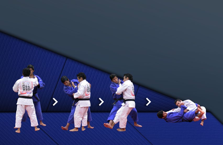 judo